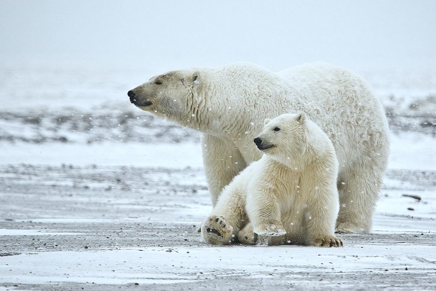 Sow and cub Polar Bears (Ursus maritimus) in the Arctic National Wildlife Refuge, Alaska.